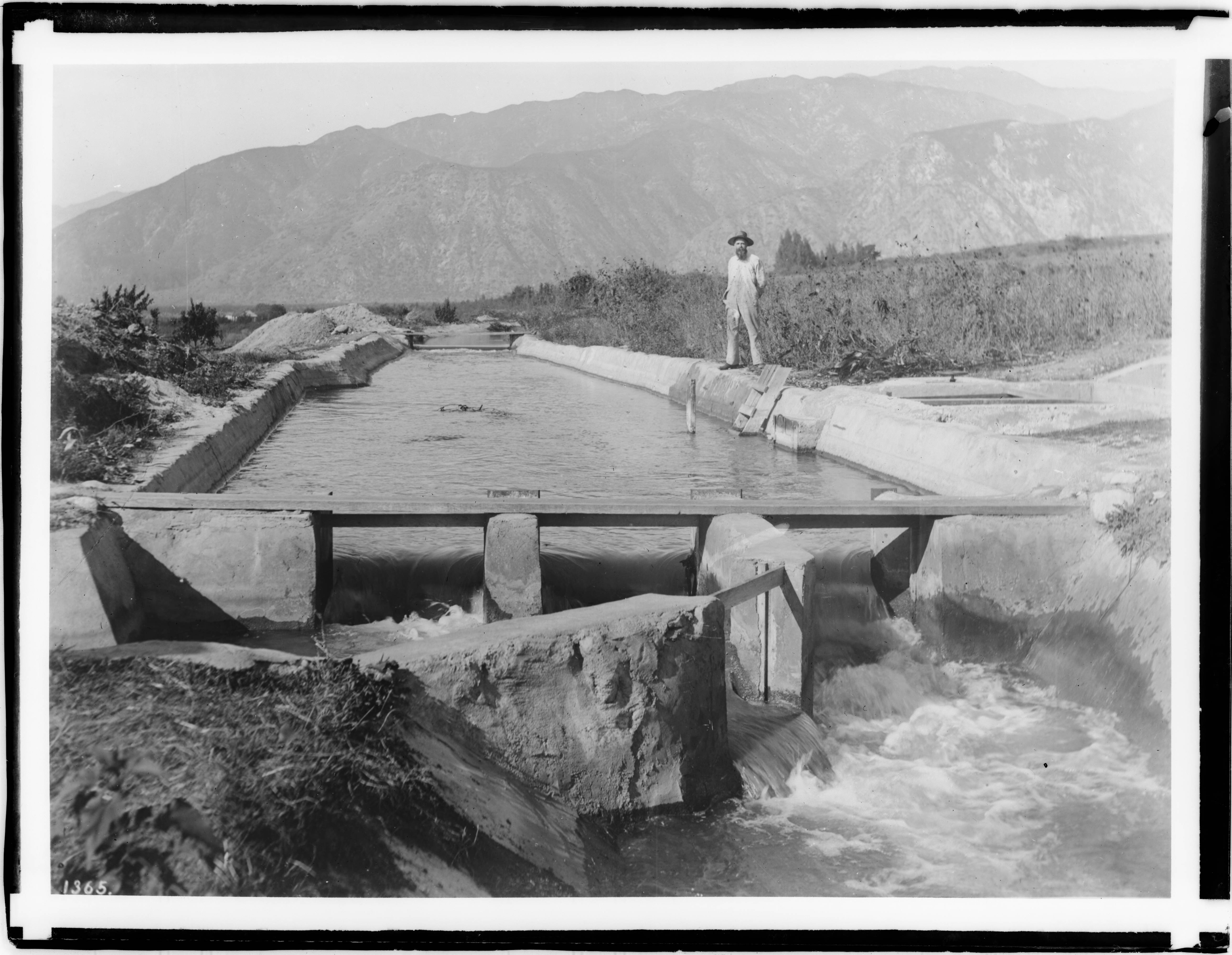 Main irrigation ditch in the San Gabriel Canyon, ca.1900 Photograph of a man standing next to a large irrigation ditch in the San Gabriel Canyon, ca.1900. The ditch brings water from the mountains to the Pomona Valley. A plank crossing the ditch which is full of water at a diversion is in the foreground and there is another further back. Mountains are in the background. Call number: CHS-1365 Filename: CHS-1365 Coverage date: circa 1900 Part of collection: California Historical Society Collection, 1860-1960 Format: glass plate negatives Type: images Part of subcollection: Title Insurance and Trust, and C.C. Pierce Photography Collection, 1860-1960 Repository name: USC Libraries Special Collections Accession number: 1365 Microfiche number: 1-110-6 Archival file: chs_Volume69/CHS-1365.tiff Repository address: Doheny Memorial Library, Los Angeles, CA 90089-0189 Geographic subject (country): USA Format (aacr2): 1 photograph : photoprint, b&w ; 8 x 10 in.; 1 photograph : glass photonegative, b&w ; 17 x 20 cm. Rights: Digitally reproduced by the USC Digital Library; From the California Historical Society Collection at the University of Southern California Subject (adlf): canals Project: USC Repository Contributing entity: California Historical Society Date created: circa 1900 Publisher (of the digital version): University of Southern California. Libraries Format (aat): photographs Geographic subject (state): California Subject (file heading): Agriculture -- Irrigation Legacy record ID: chs-m9446; USC-1-1-1-9583 Geographic subject: canyons: San Gabriel Canyon; valleys: Pomona Valley Access conditions: Send requests to address or e-mail given. Phone (213) 821-2366; fax (213) 740-2343. Geographic subject (county): Los Angeles Subject (lcsh): Water-supply; Irrigation